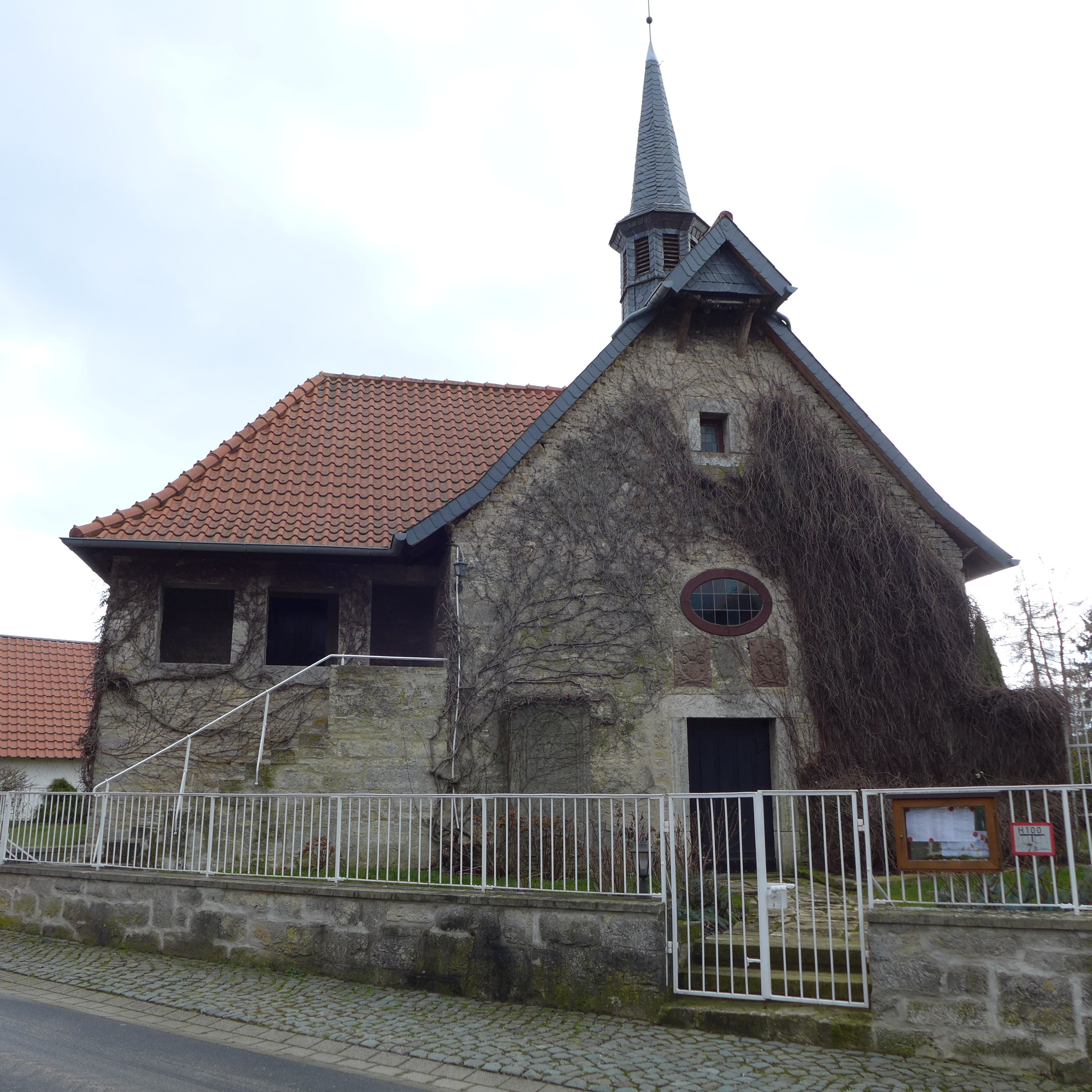 Helmscherode Chapel